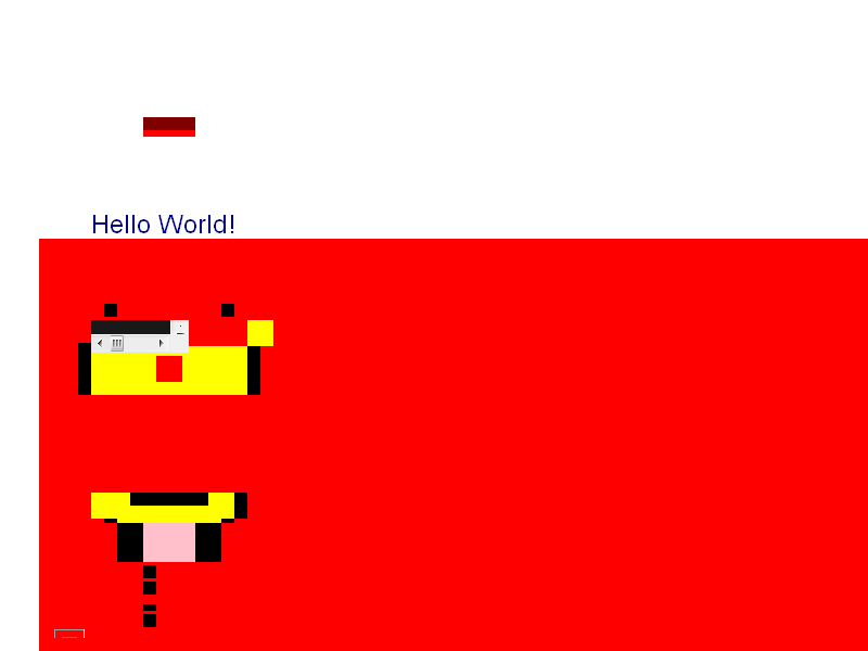 The result for Acid2 in IE 7.05346.5